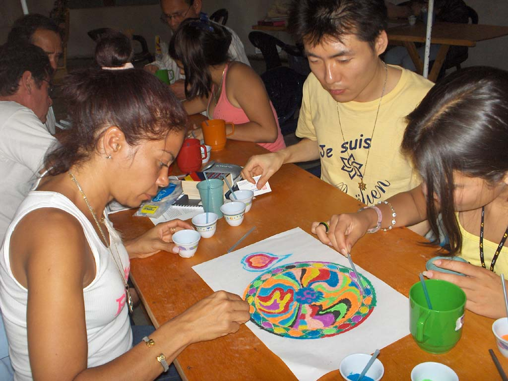 Image Specific: 27 July 2007 Los Planes, Rio Negro, Madellin, Colombia Sand Drawing